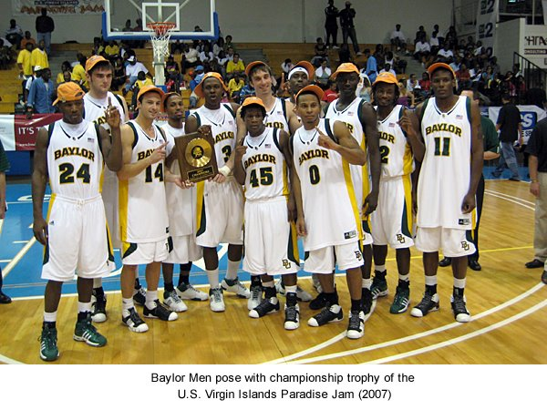 Baylor Team Photo 2007, Paradise Jam Tournament winner